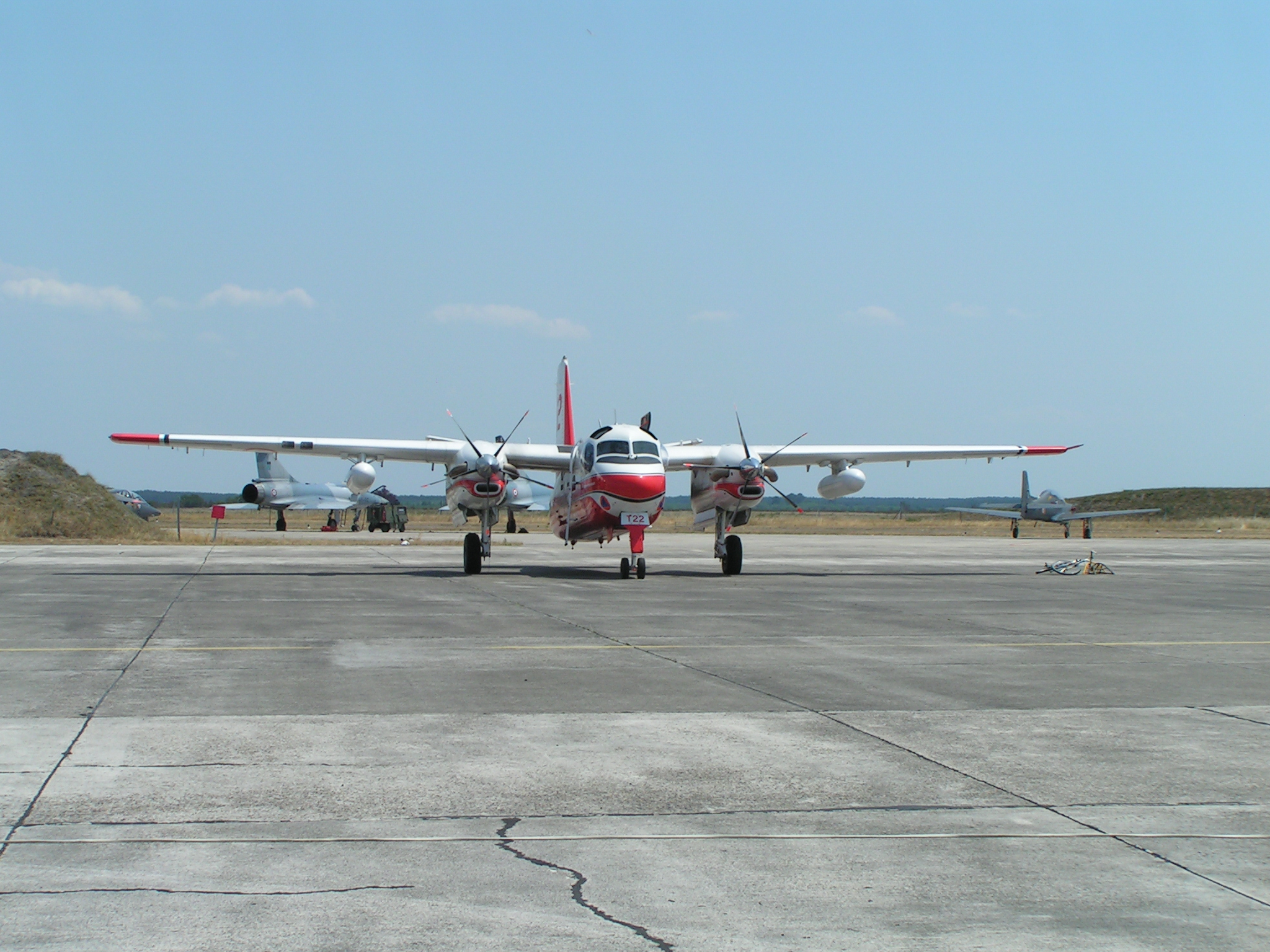 An S-2FT Tracker at Cazaux, France.